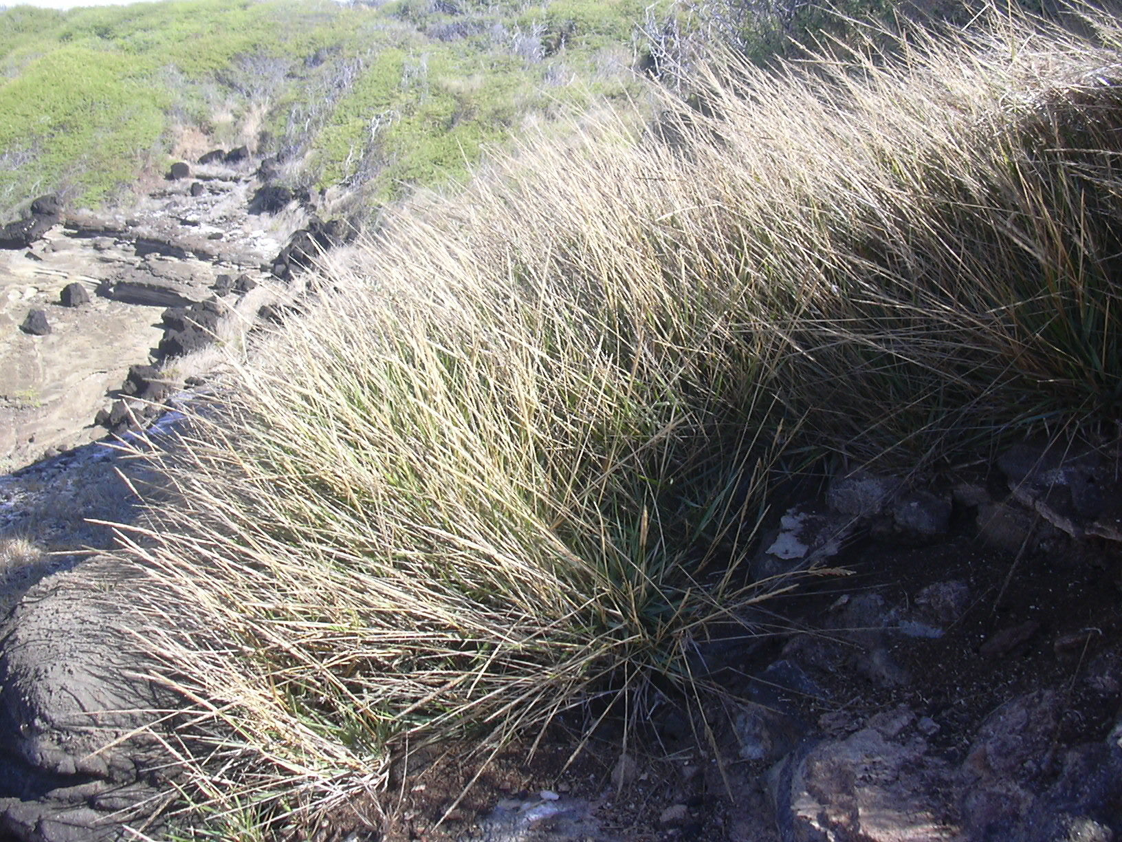 Sporobolus pyramidatus (habit). Location: Oahu, Koko Head lookout